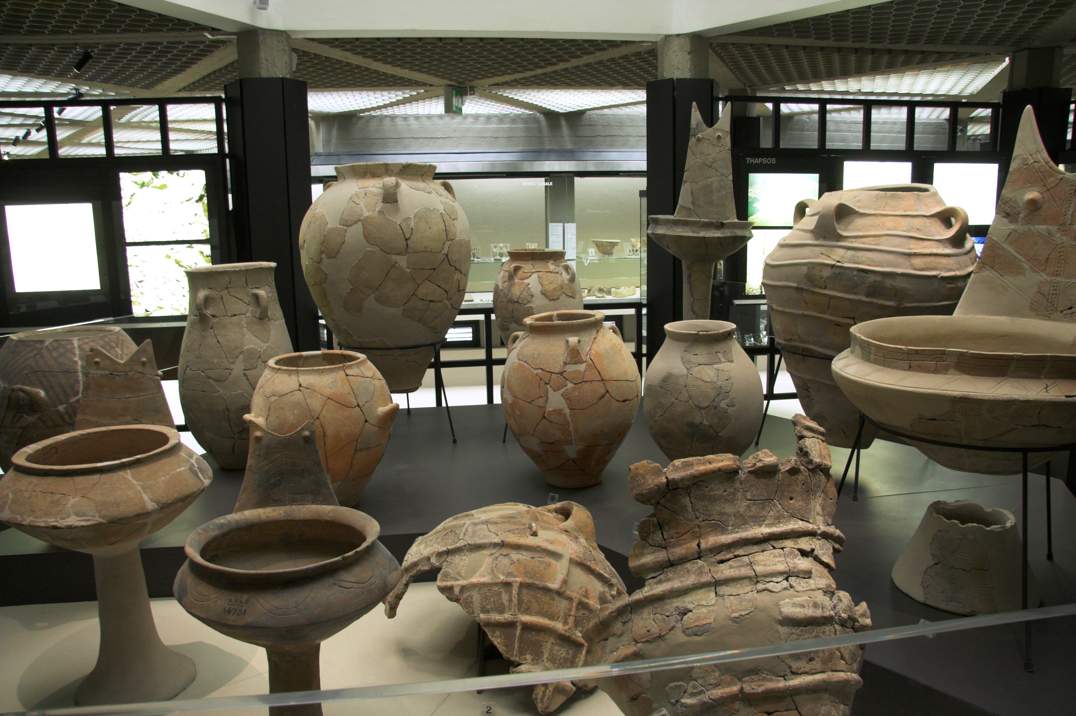 Large pottery of Thapsos, Sicily, 1500-850 BC. Archaeological Museum of Syracuse.